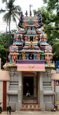 Melacauvery kailasanathar temple மேலக்காவேரி வரதராஜப்பெருமாள்கோயில்